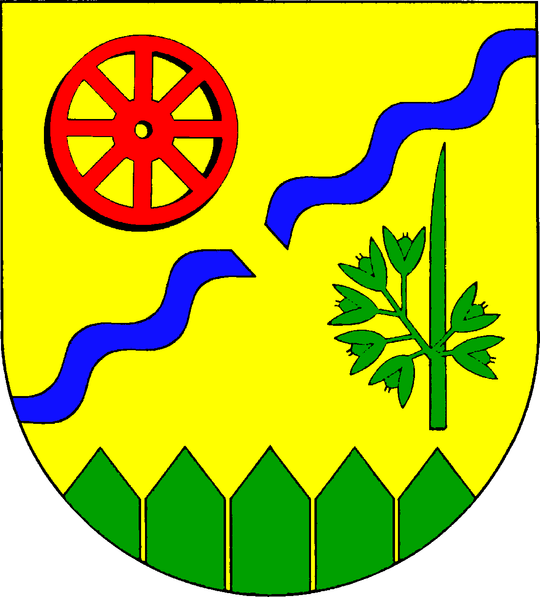 Coat of arms of the municipality Wapelfeld in Schleswig-Holstein, Germany.